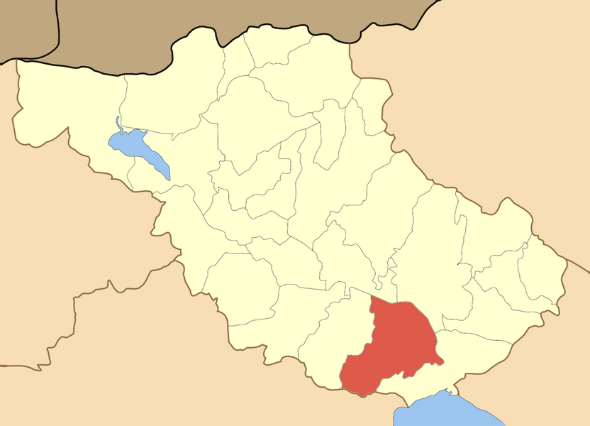 Locator map of Tragilou municipality in Serres perfecture in Greece.